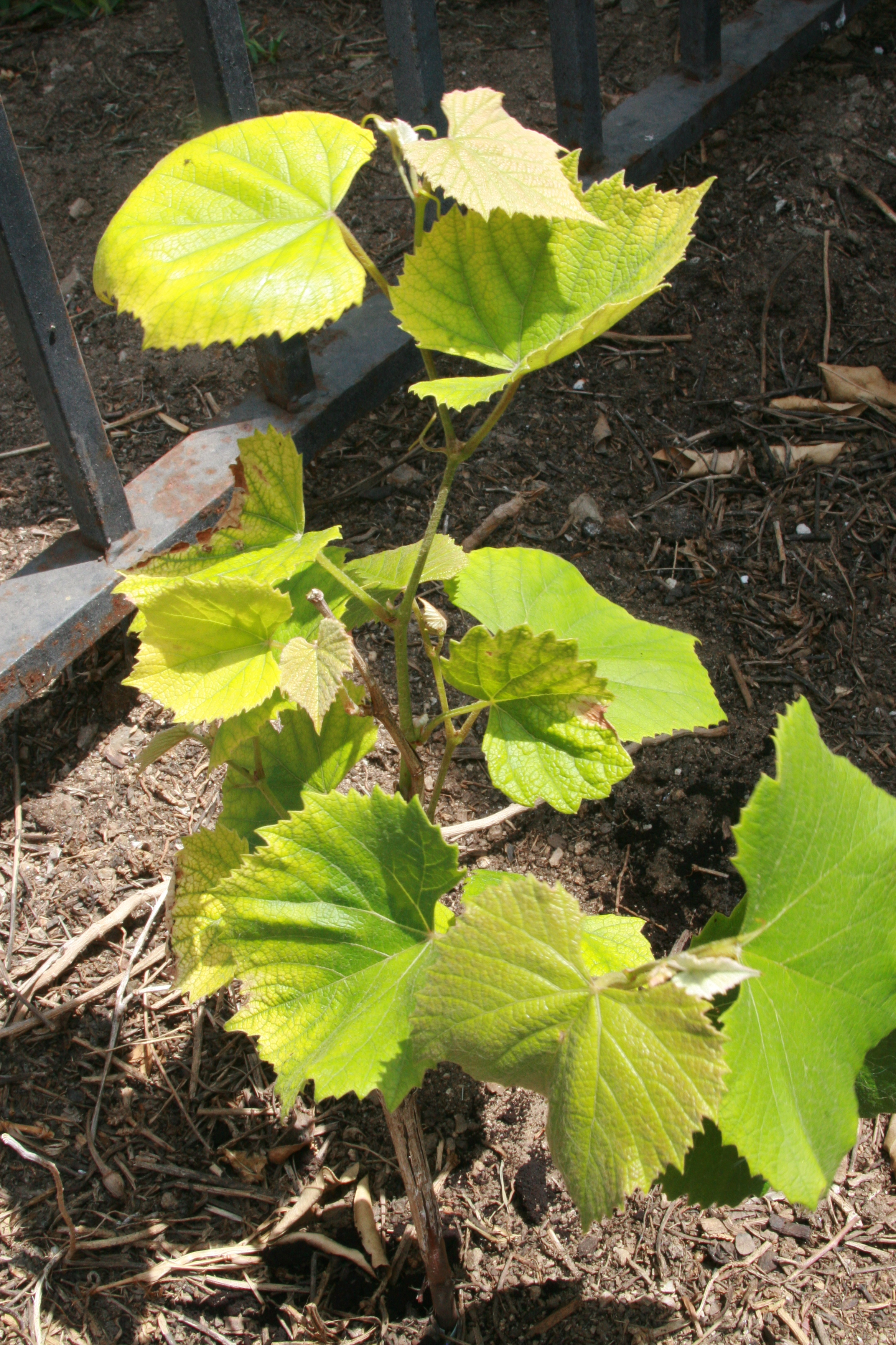 A young Vitis labrusca Concord vine.